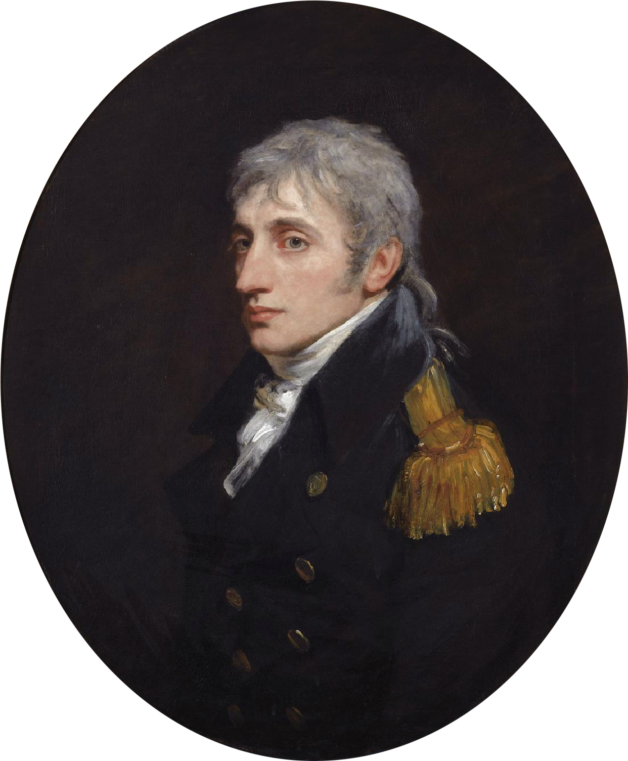 Captain Joseph Lamb Popham (1771-1833) oil on canvas 72 x 60 cm 1797 or later